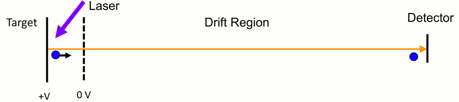 Schematic of a laser ionization time-of-flight mass spectrometer; a pulsed laser creates ions from material deposited on a target; the ions are accelerated and separate by mass in the drift region before being detected.